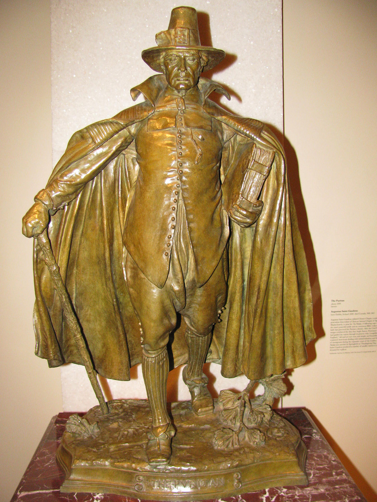 The Puritan ca. 1899 Augustus Saint-Gaudens Born: Dublin, Ireland 1848 Died: Cornish, New Hampshire 1907 bronze 31 x 19 1/2 x 13 1/4 in. (78.7 x 49.5 x 33.7 cm) Smithsonian American Art Museum Gift of the Samuel D. Chapin Family 2001.21 Smithsonian American Art Museum Wikipedia Loves Art at the Smithsonian American Art Museum This photo of item # 2001.21 at the Smithsonian American Art Museum was contributed under the team name "Team_Gene" as part of the Wikipedia Loves Art project in February 2009. Smithsonian American Art Museum The original photograph on Flickr was taken by pohick2—please add a comment to the original Flickr page whenever a use has been made on Wikipedia or another project. Project galleries on Flickr: this institution, this team